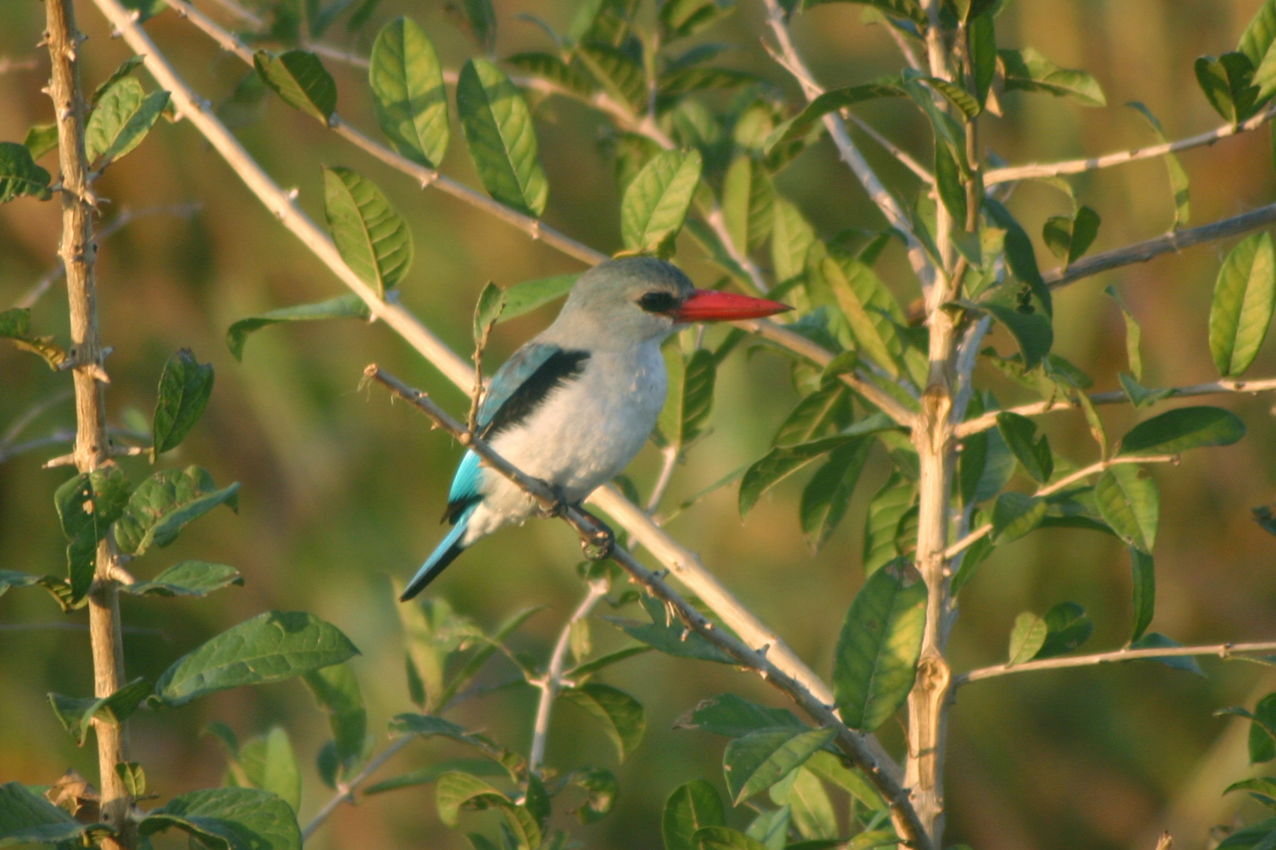 Mangrove Kingfisher Halcyon senegaloides near Saadani National Park, Tanzania